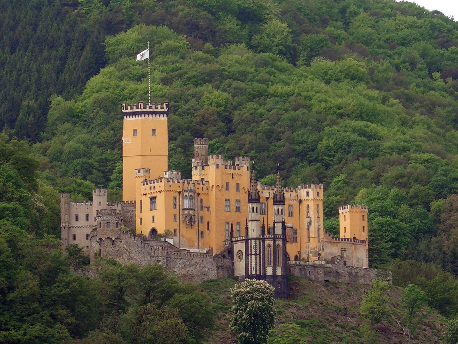 Stolzenfels Castle in Koblenz